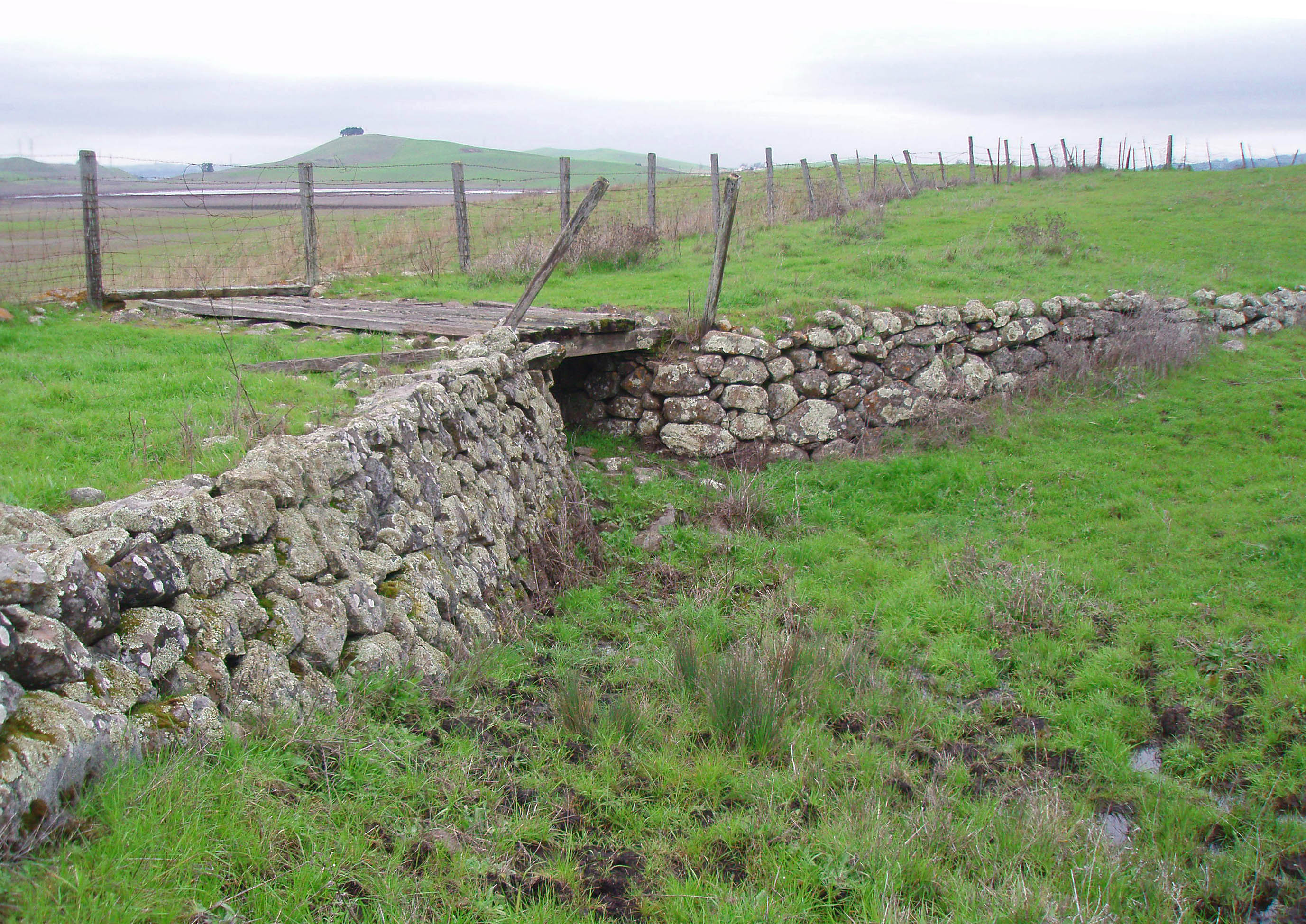 drystone bridge circa 1900 over cordoza creek in the tolay lake watershed, sonoma co calif USA